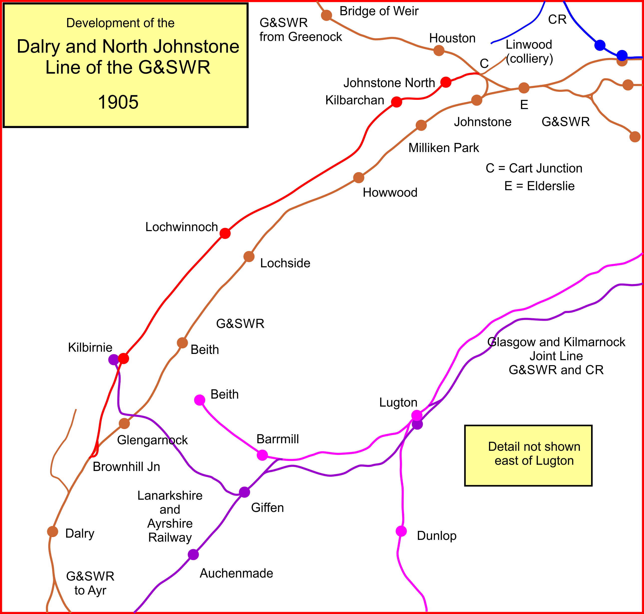 System map of the Dalry and North Johnstone line in 1905